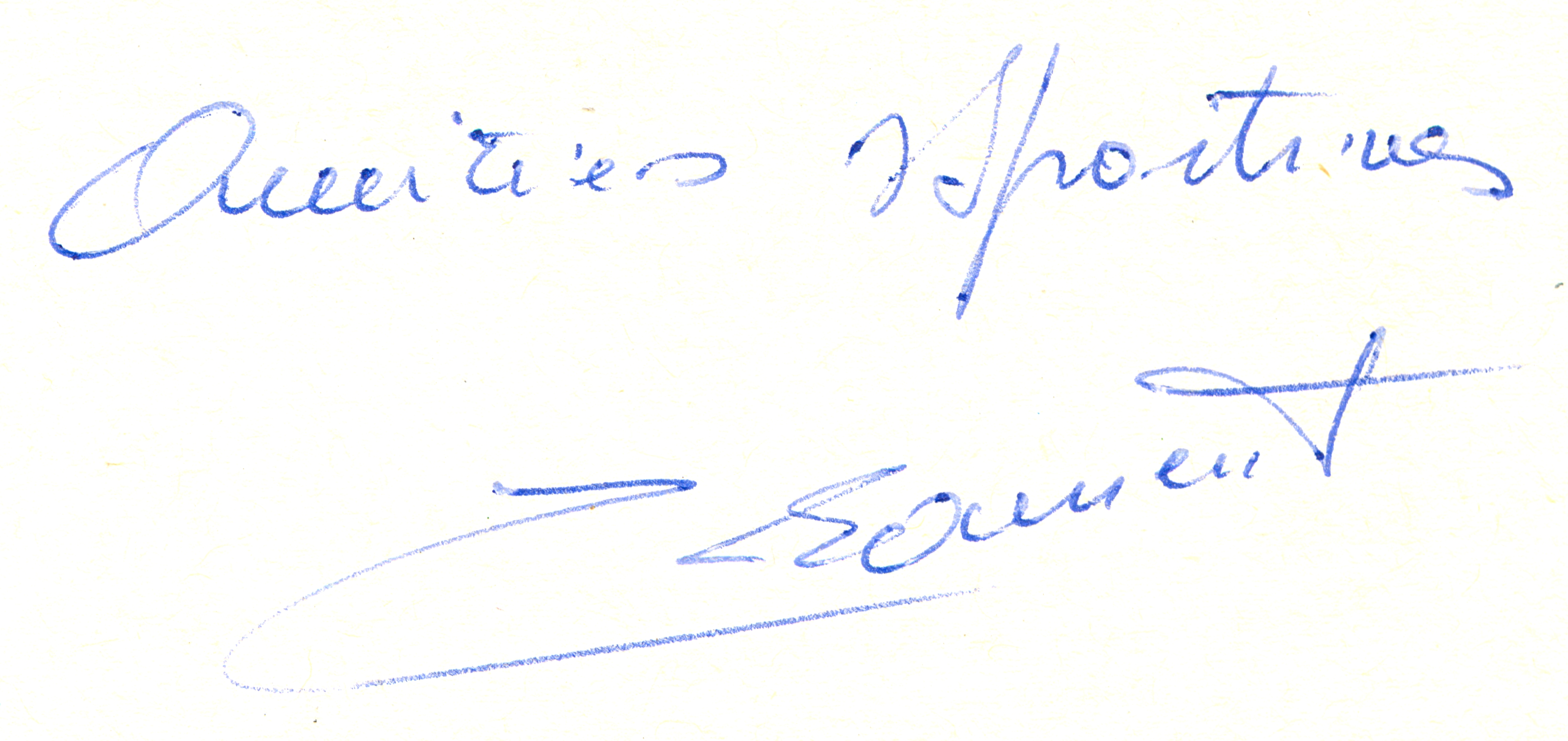 Autograph of French football player Lucien Laurent